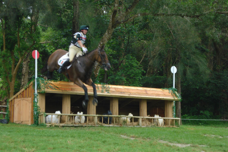 Beijing 2008 Olympic Game - Equestrian Event - Cross-Country Test of the Eventing Competition, held on The Olympic Equestrian Venue (Beas River) on 2008.8.13. Jump Number 24 - Shennongjia (神農架)